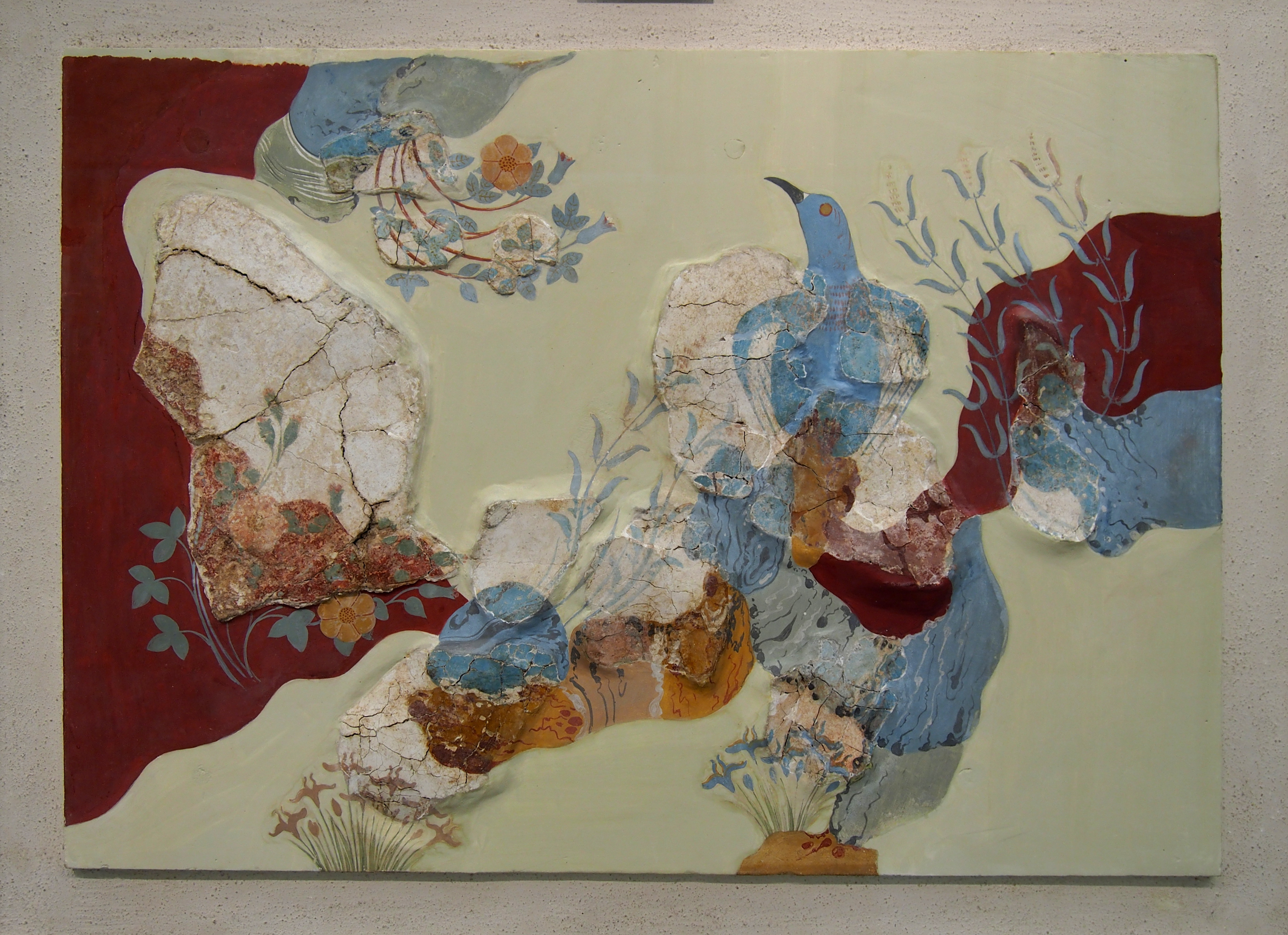 The Blue Bird fresco. It was part of a larger fresco found in a large room of a house west of Knossos, known as the house of frescoes. 1600-1500 BC. The bird is sitting on a flower among rocks.